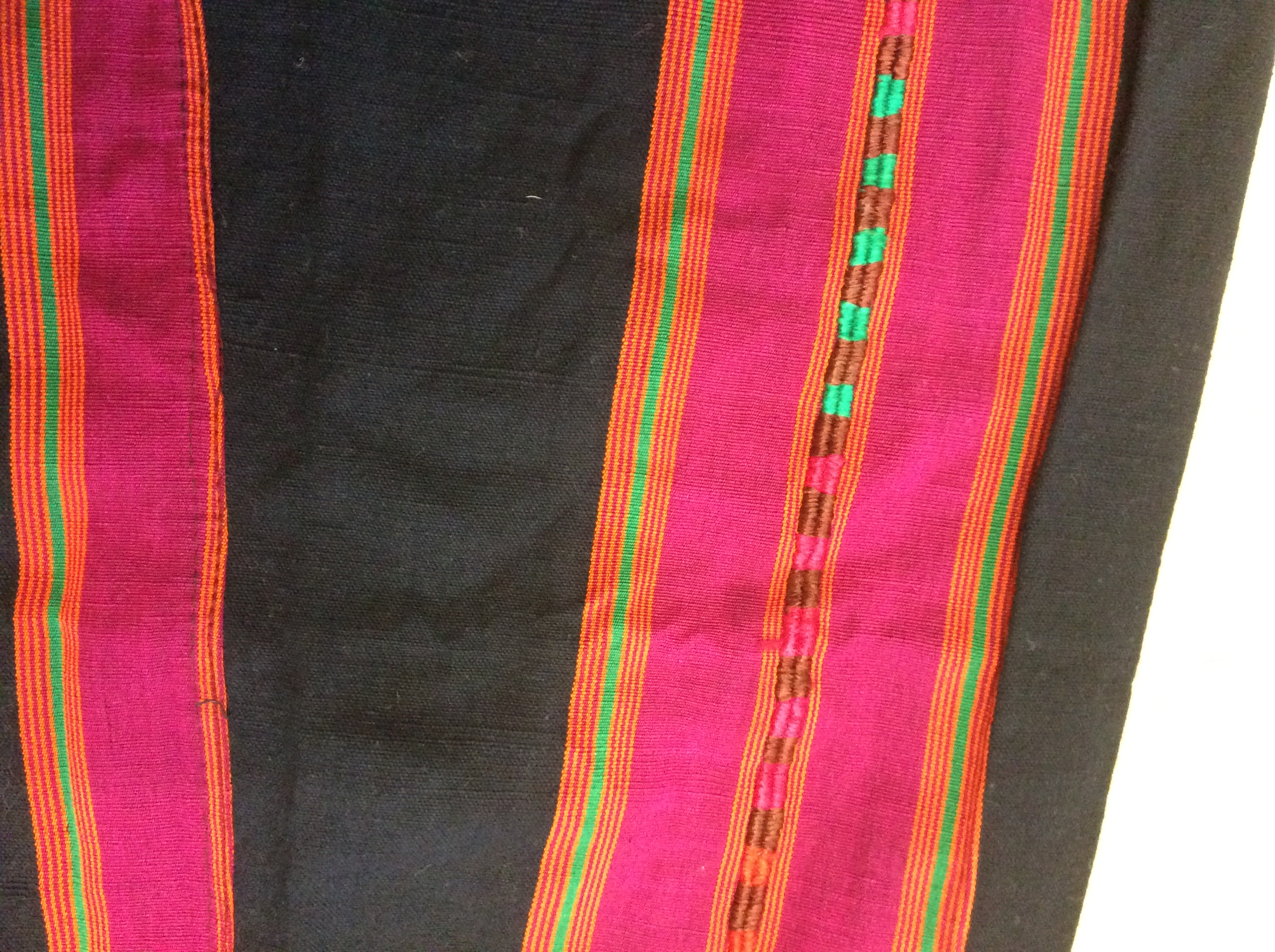 Majdalawi weaving. Gaza 1950's